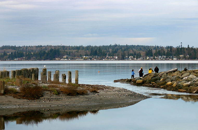 Birch Bay is a popular resort community especially during summer. Because of its location, many people come here for holidays and weekend getaways.